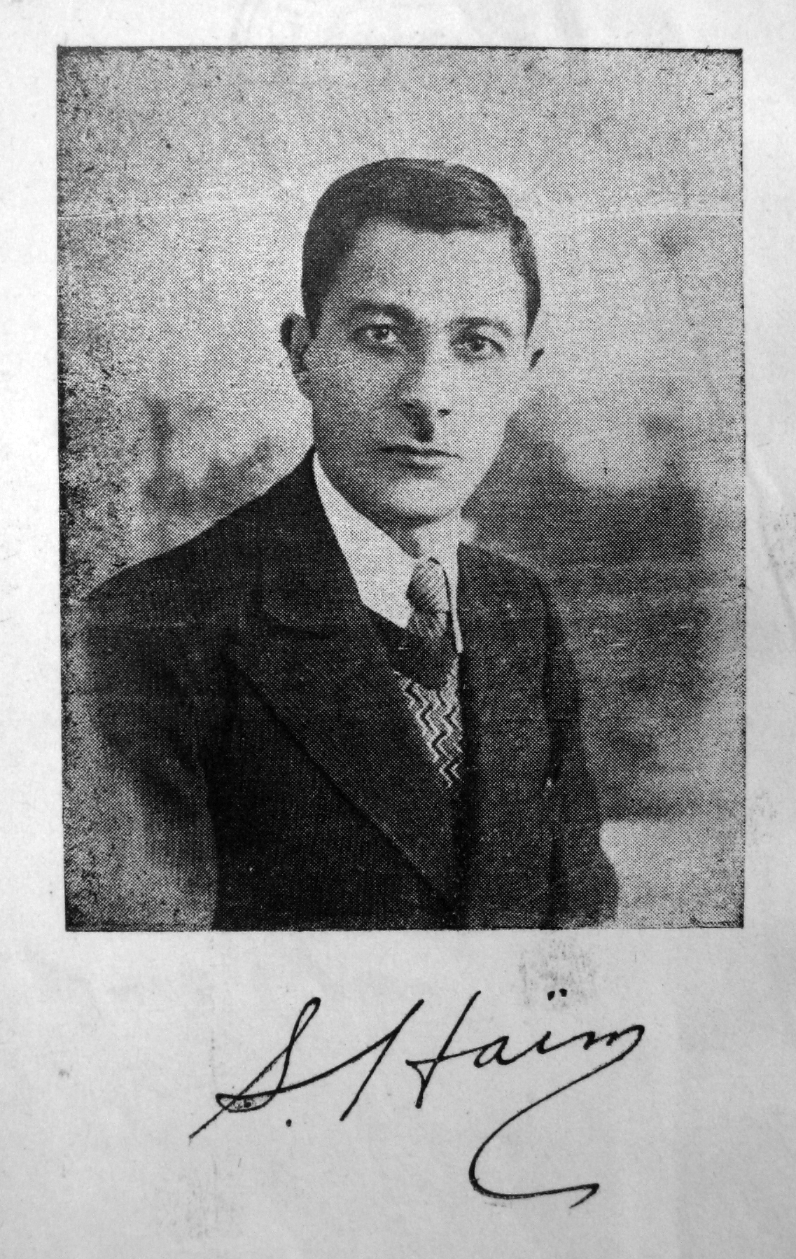 This is a digital camera reproduction of Suleyman Haiim, photographed from an old version of Haiim's English-Persian dictionary